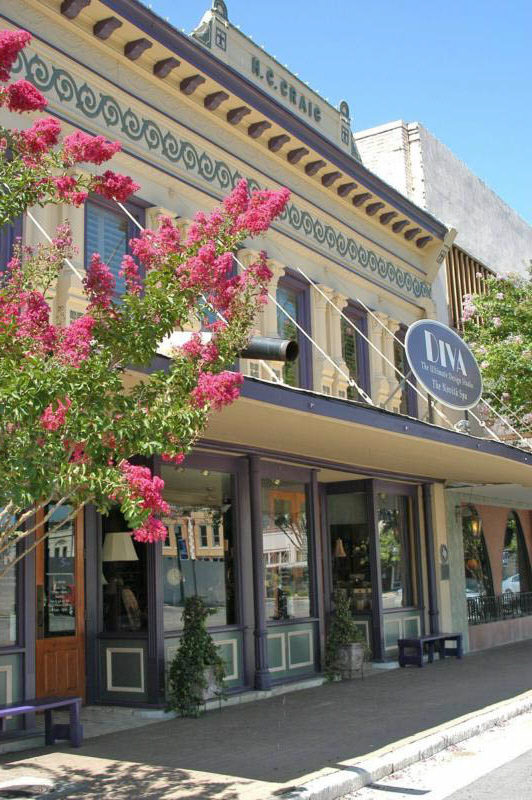 The H.C. Craig Building at 115 W. 7th St. in Georgetown, Texas, is a Recorded Texas Historic Landmark since 1990 and a contributing property of the Williamson County Courthouse Historic District on the National Register of Historic Places.